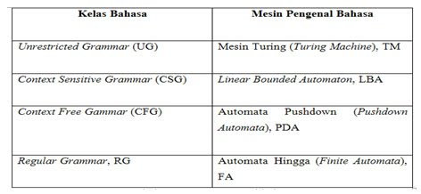 Graph Palindrome Detector